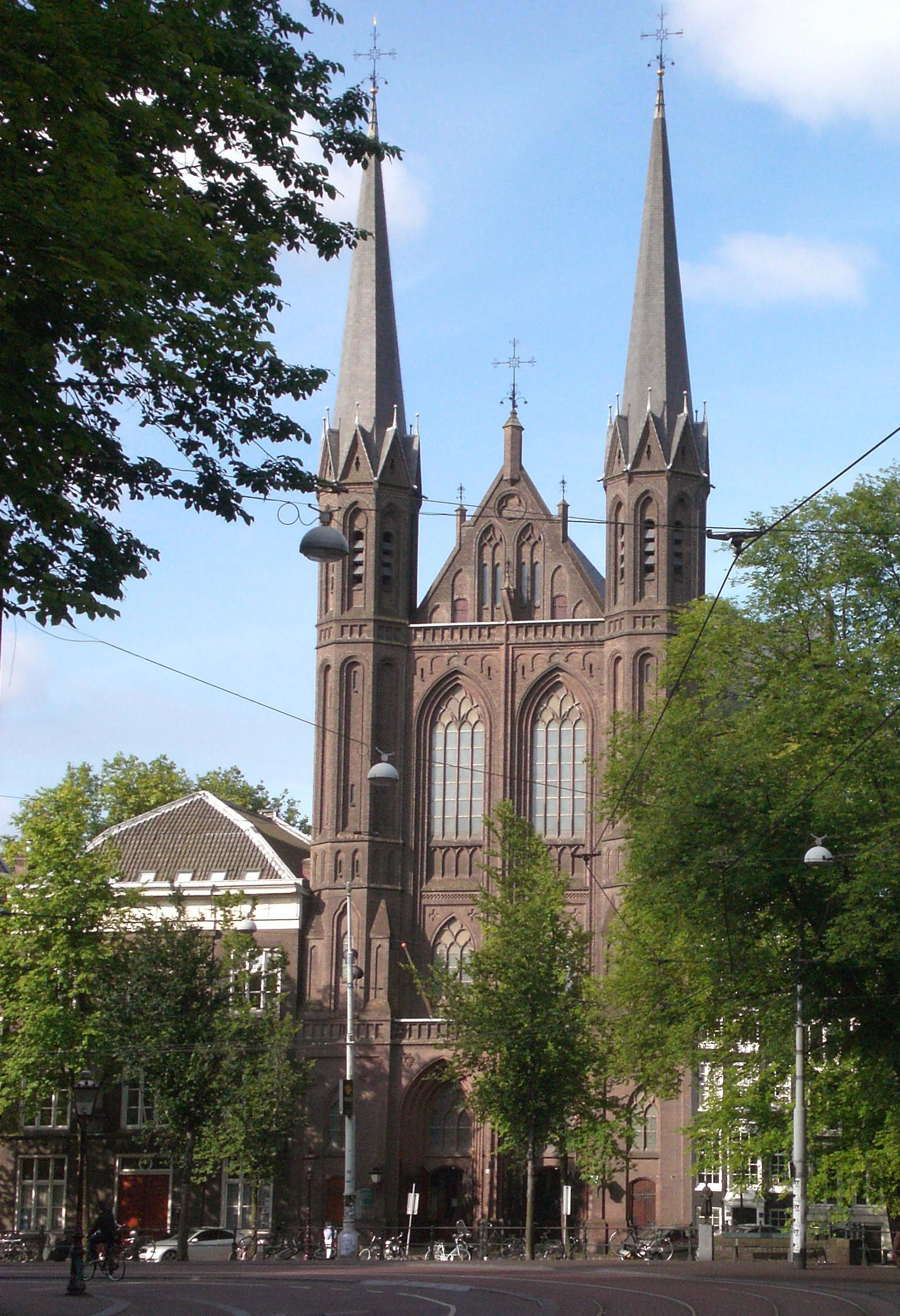 Jesuit Church "De Krijtberg" (Sint-Franciscus Xaveriuskerk), Singel 448, 1017 AV Amsterdam